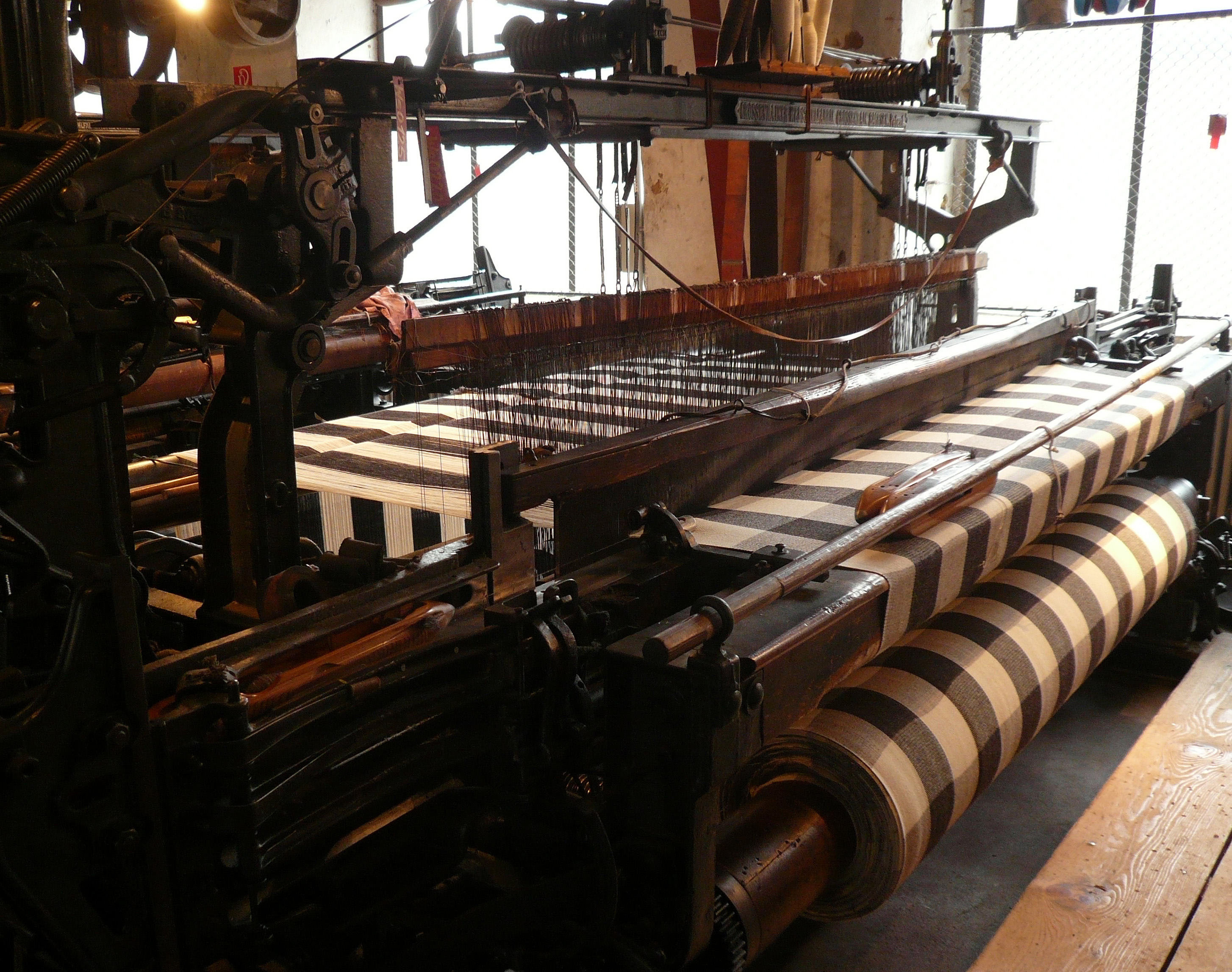 Fully working loom (weaving machine) (produced by Fa. Grossenhainer Webstuhl-Maschinenfabrik, Großenhain, 1939) at the LVR Museum of Industry - Mueller Cloth Mill. On the left and on the cloth 'flying shuttles' can be seen